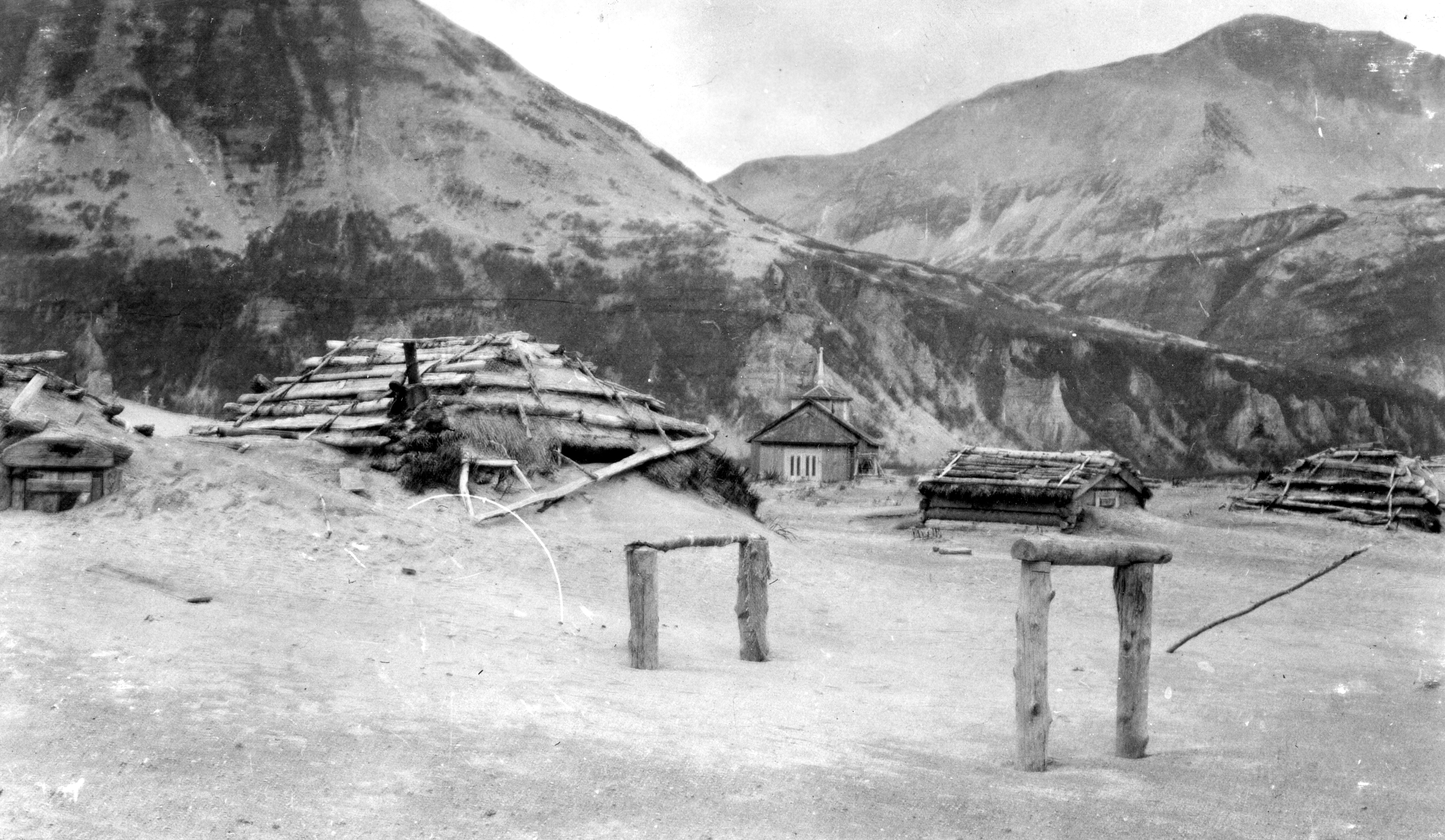 August 13, 1912: Volcanic ash drifts around houses at Katmai after the June 1912 eruption of Novarupta Volcano, Alaska, USA. Church in the distant background.